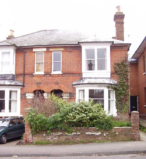 Birthplace of Actor Sir Laurence Olivier, Wathen Road, Dorking. looking North-East from Western side of road